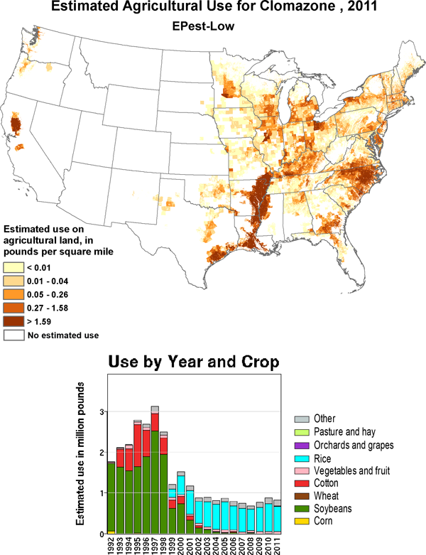 Clomazone map of use, USA, 2011 (estimated)